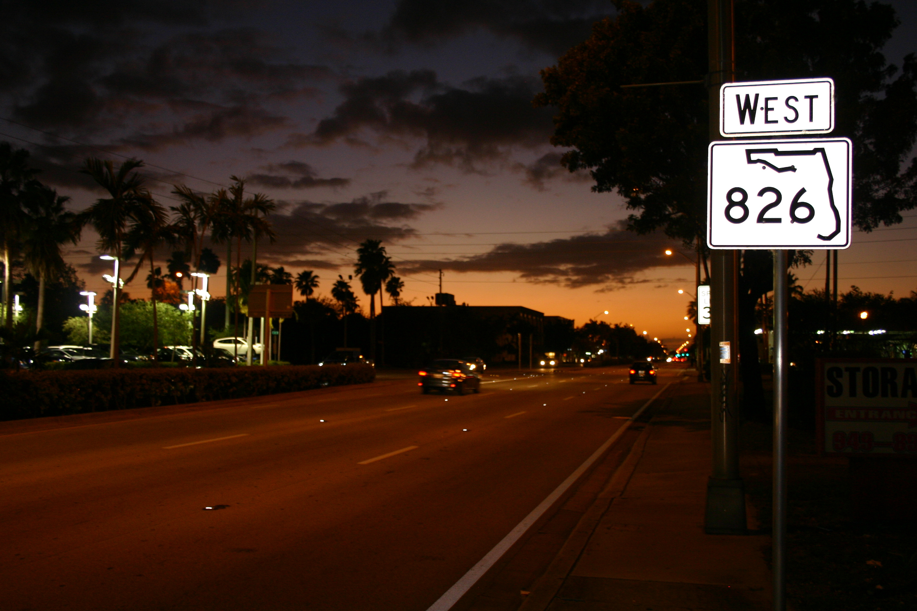 A sign denoting Florida State Road 826, located in North Miami Beach, Florida. Flash used to illustrate the reflectivity of the sign.